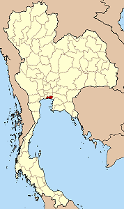 Map of Thailand hightlighting Samut Prakan province